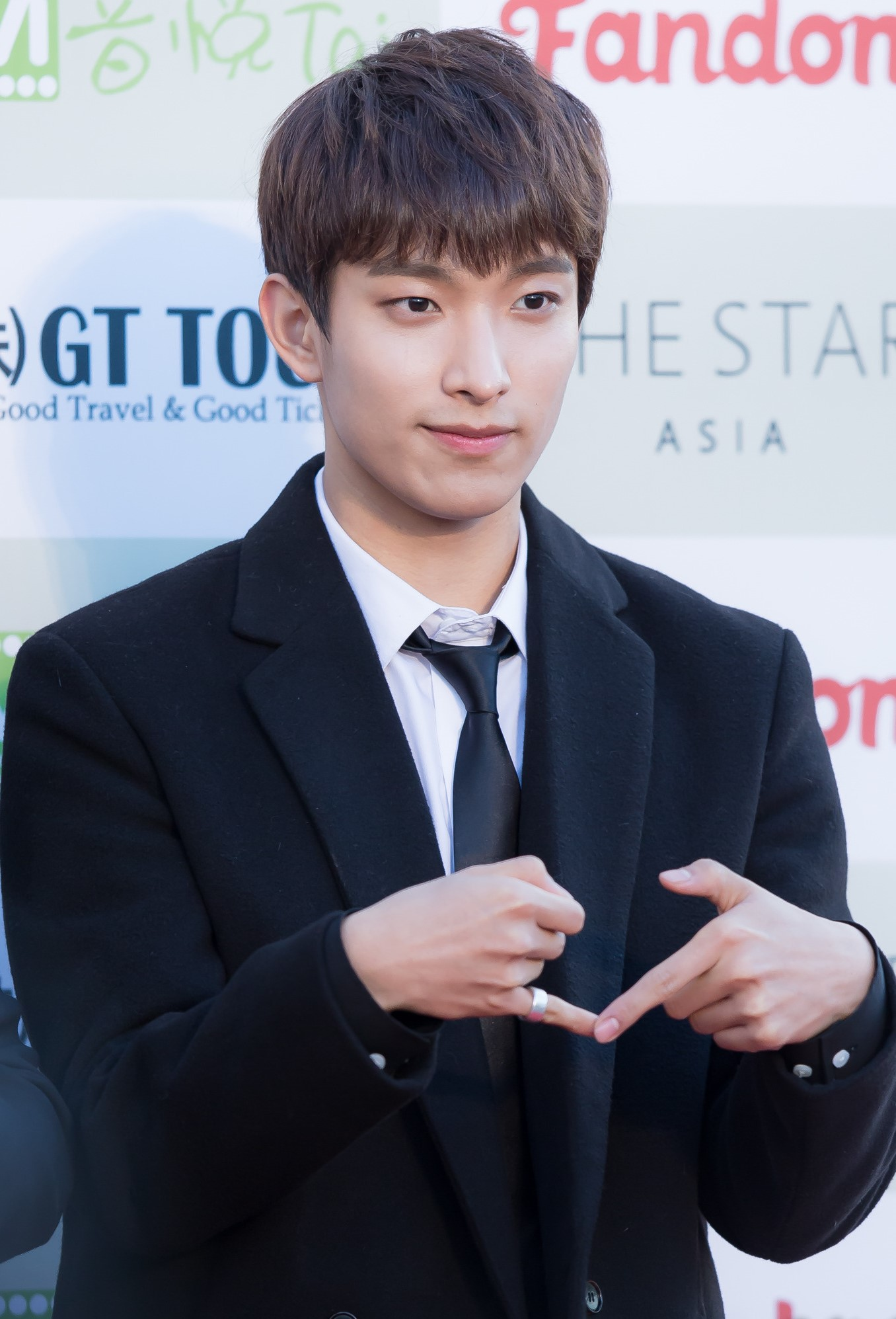 DK on the red carpet of the Gaon Chart K-pop Awards, on February 17, 2016.